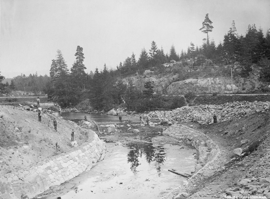 Lowering of Hyndevadsån at lake Hjälmaren in the 1880ies.